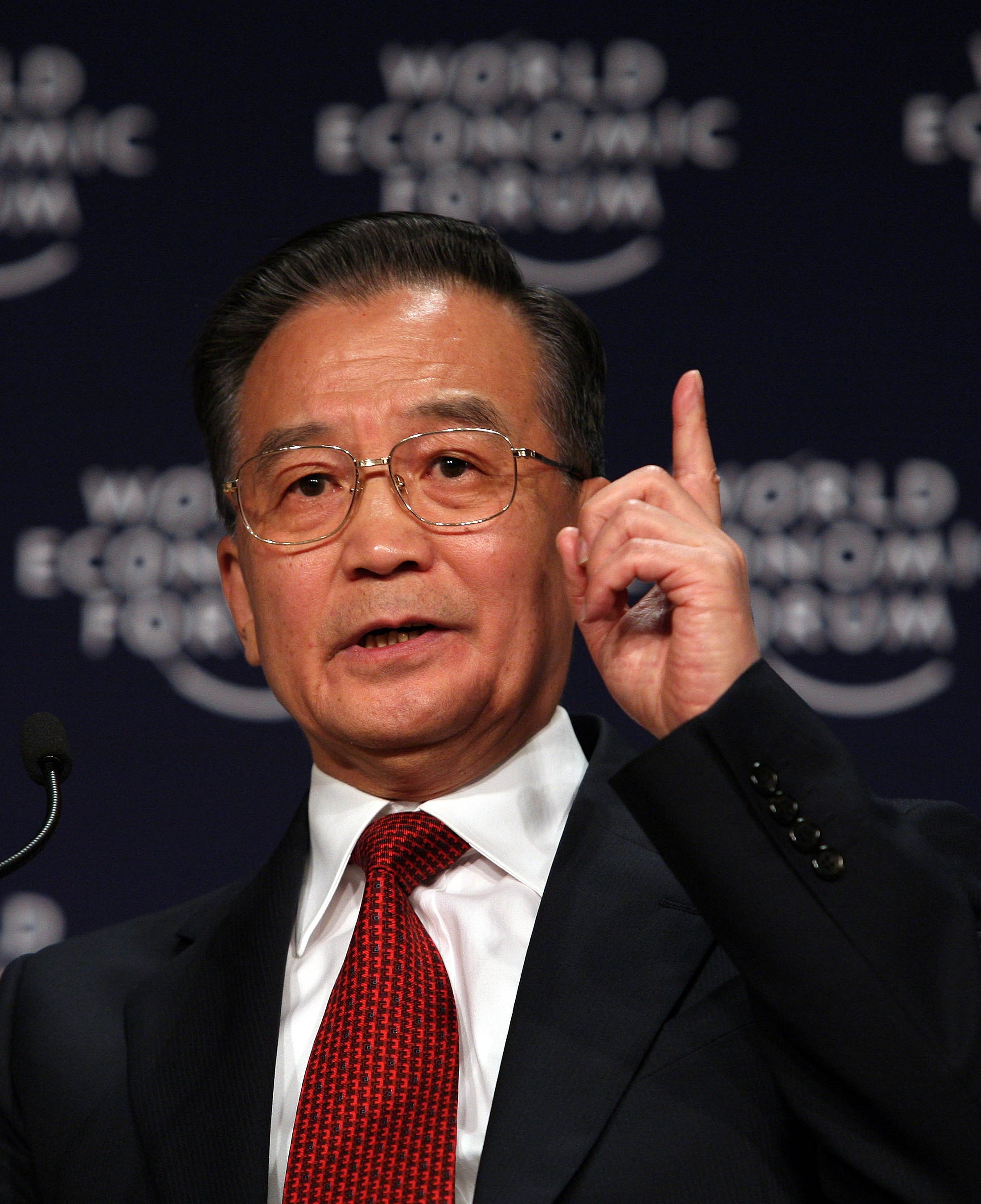 Wen Jiabao, Premier of the People's Republic of China, speaks at the Opening Plenary session at the World Economic Forum Annual Meeting of the New Champions in Tianjin, China 27 September 2008.